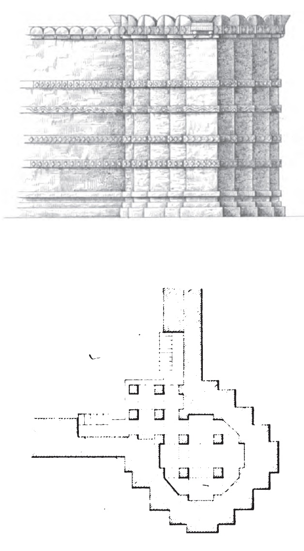 Plan and elevation of corner tower of the fortress of Zinzuwada Gujarat